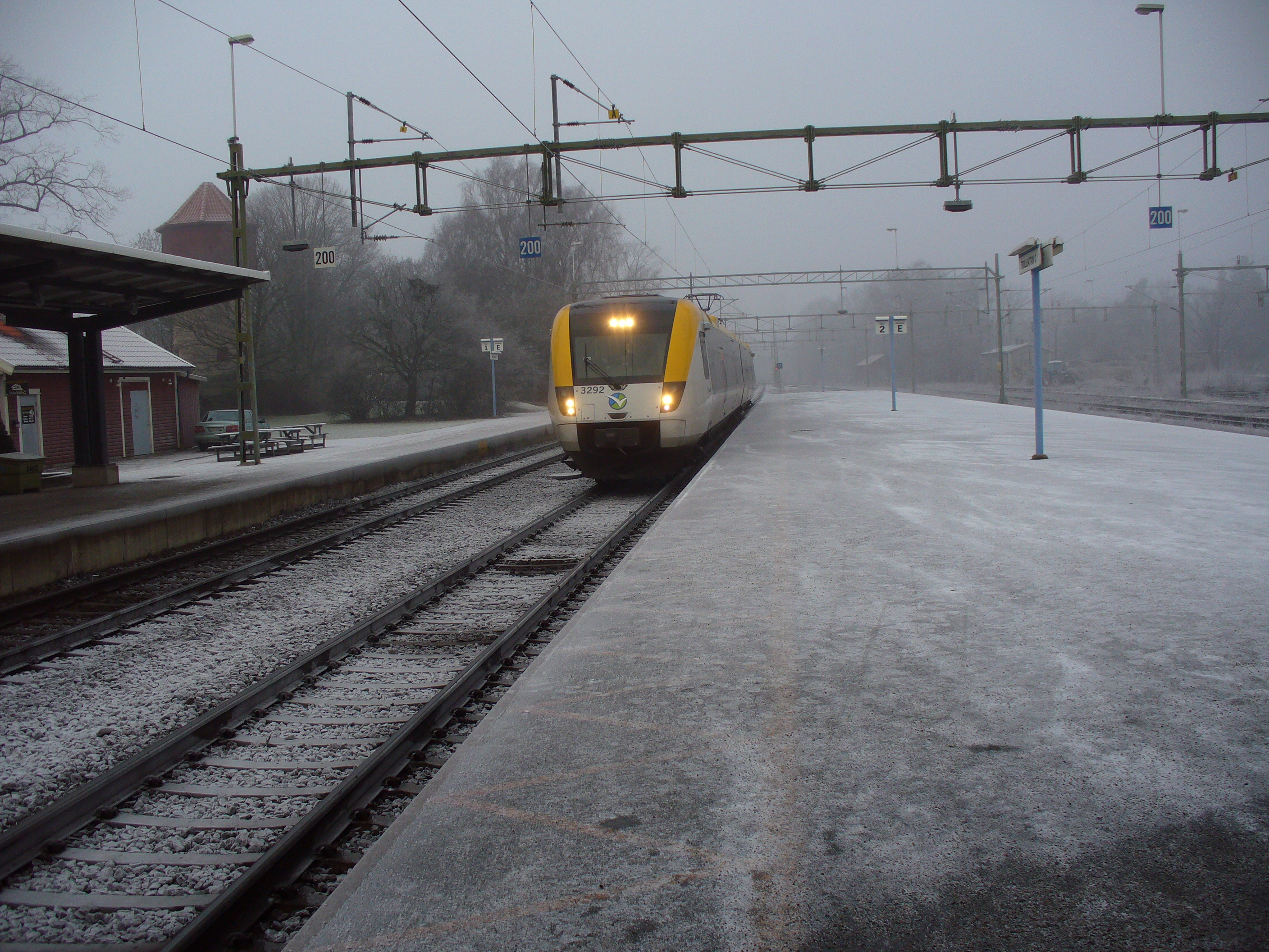 A local train of Västtrafik arriving at Trollhättan station